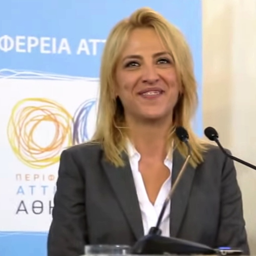 Rena Dourou, regional governor of Attica